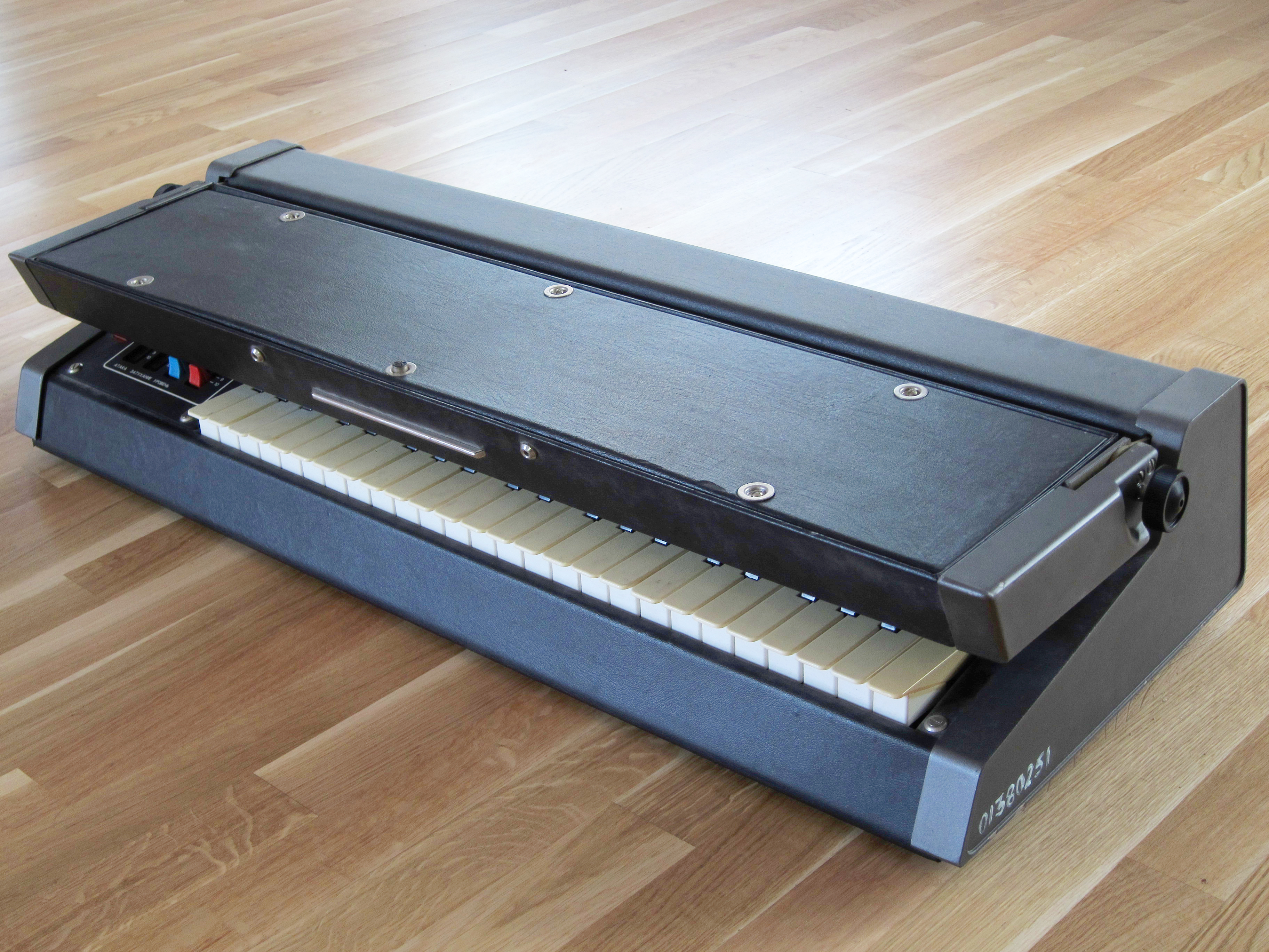 The Murom Aelita synthesizer had a swiveling control panel to protect the controls during transportation.